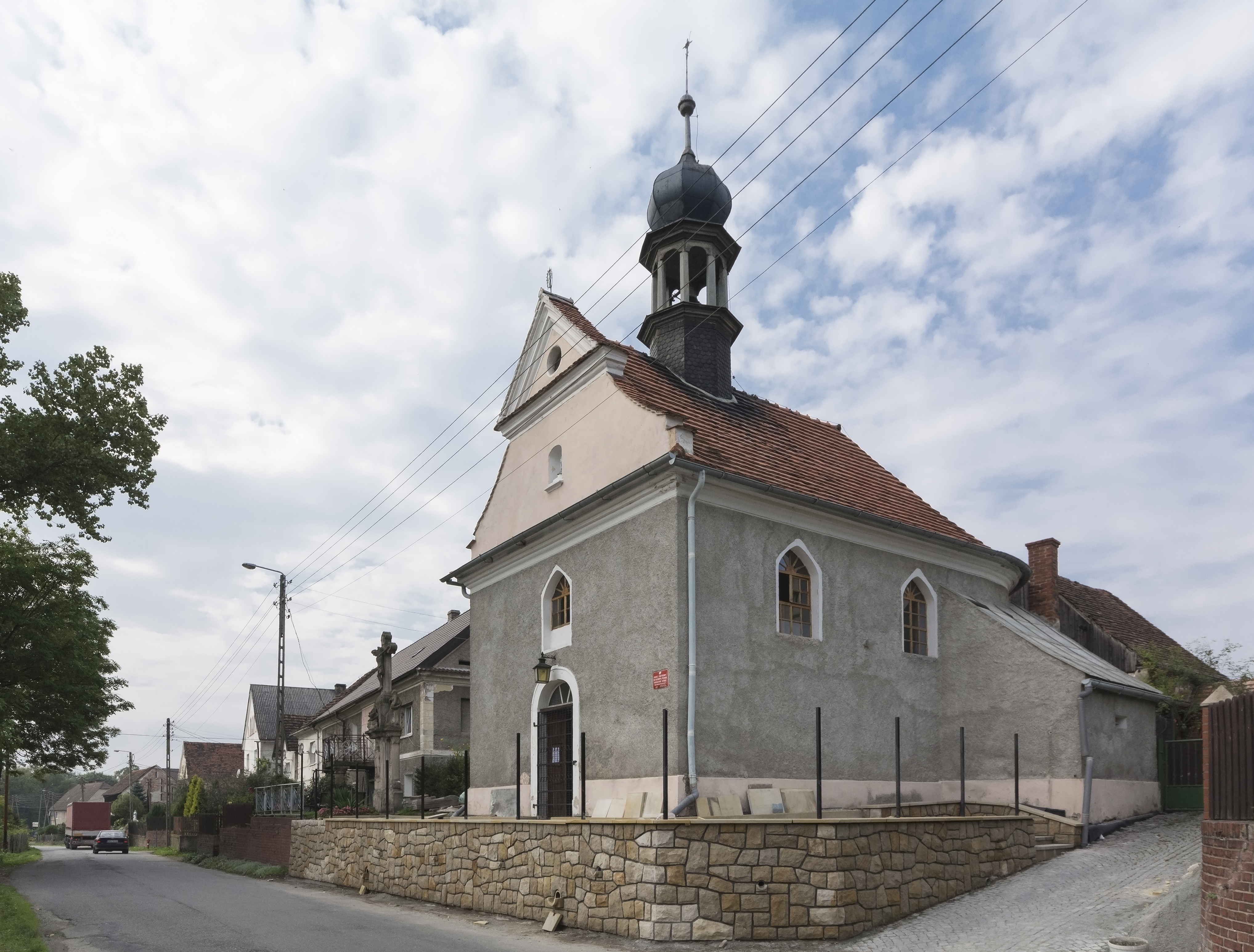 Church of St. Anthony in Gołogłowy